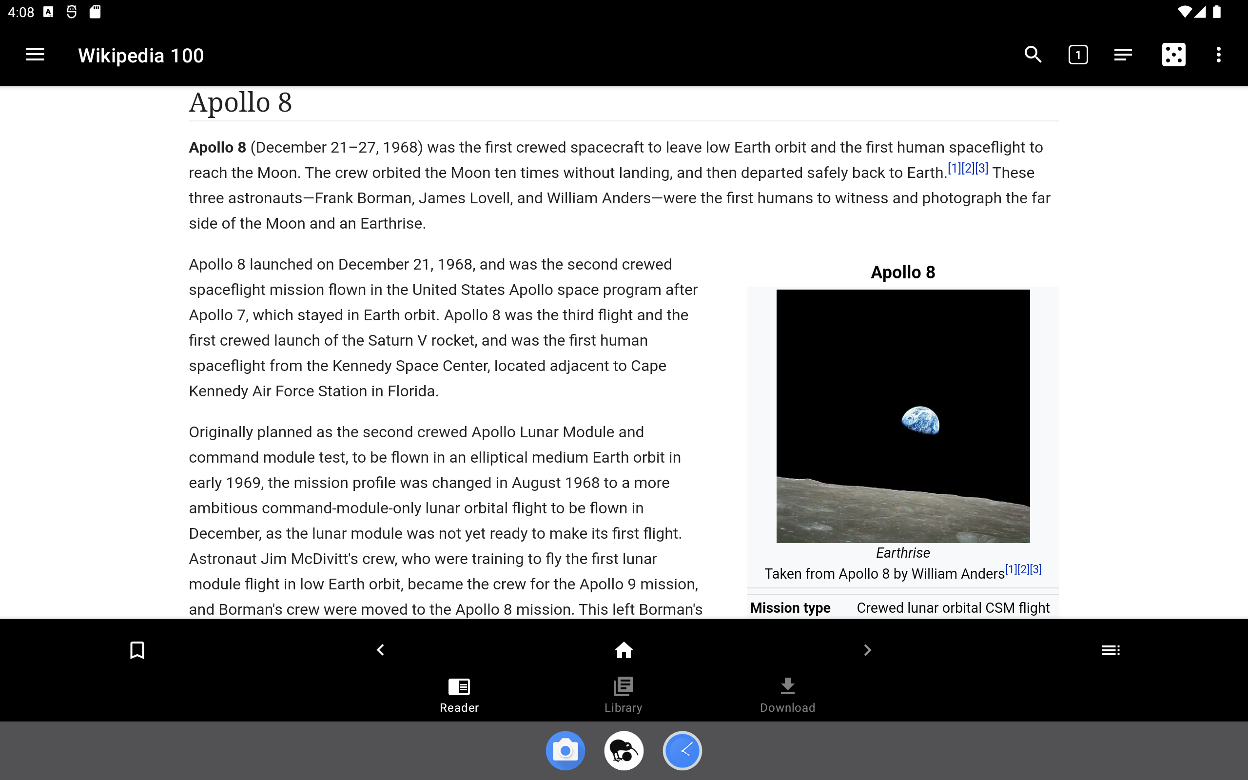 Screenshot of Kiwix for Android